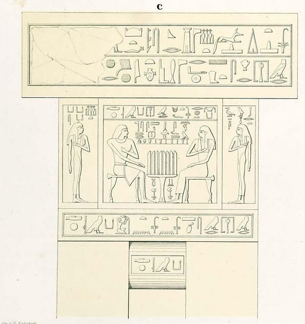 False door of Kaiemqed, Saqqaea